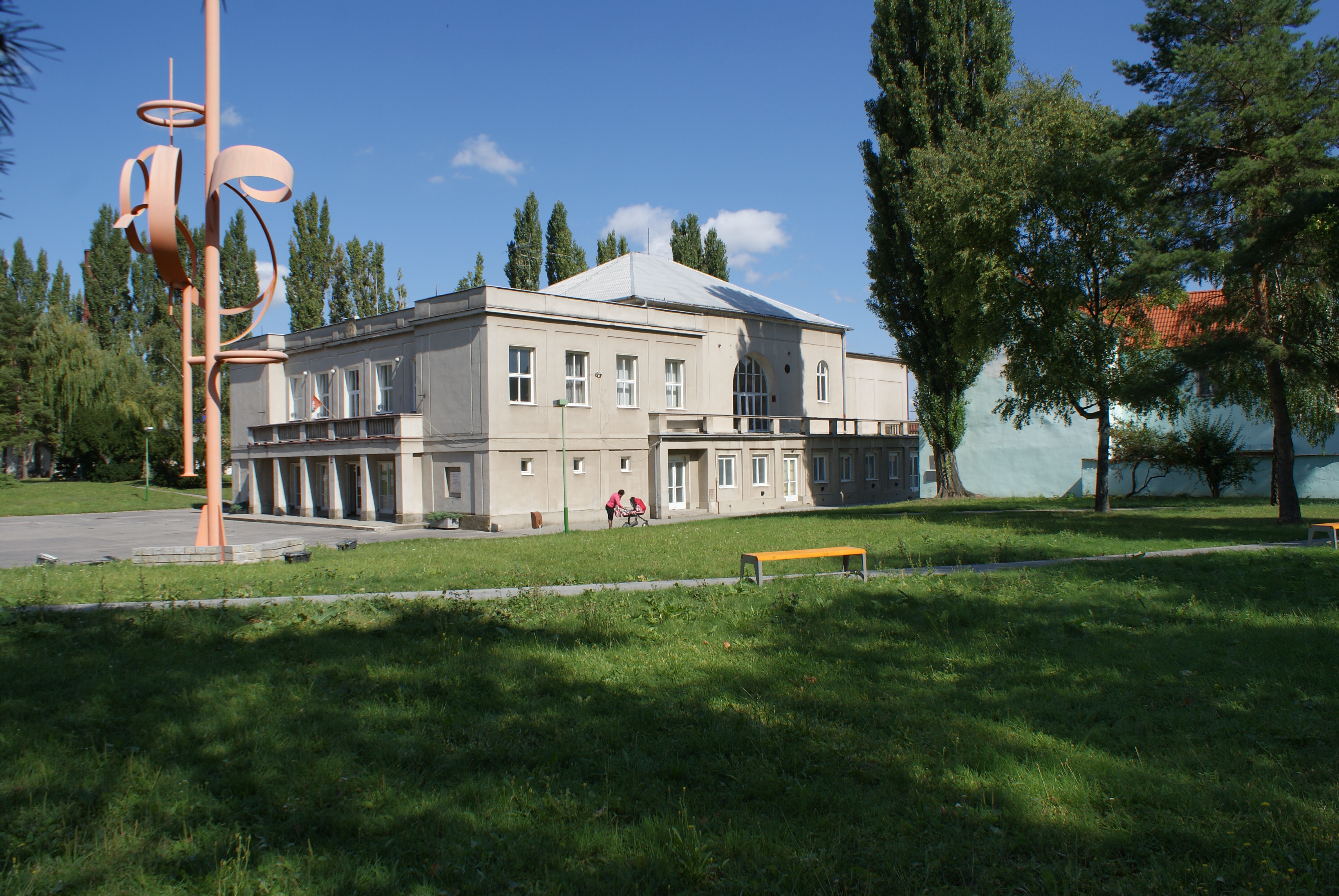 Miroslav, a town in Znojmo District, Czech Republic, a former synagogue, now a cultural center